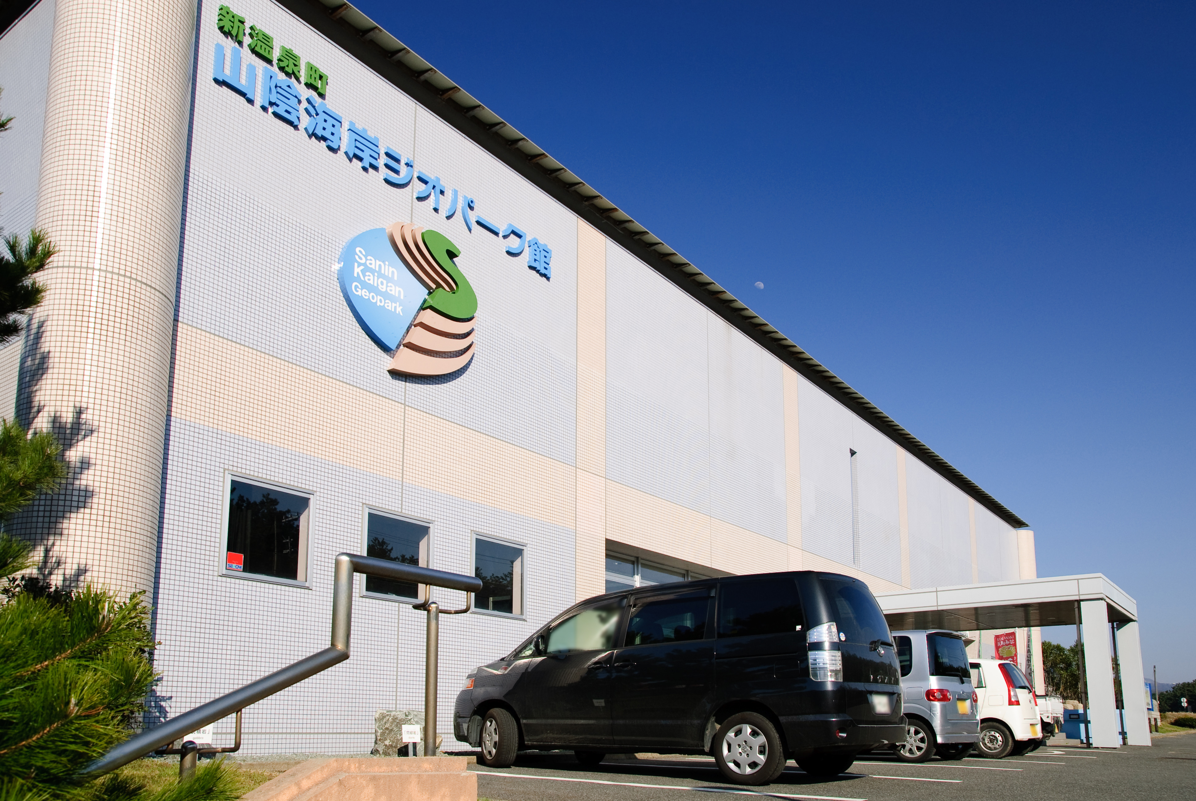 Sanin Kaigan Geopark Kan in Sinonsen-cho, Hyogo Prefecture, Japan.